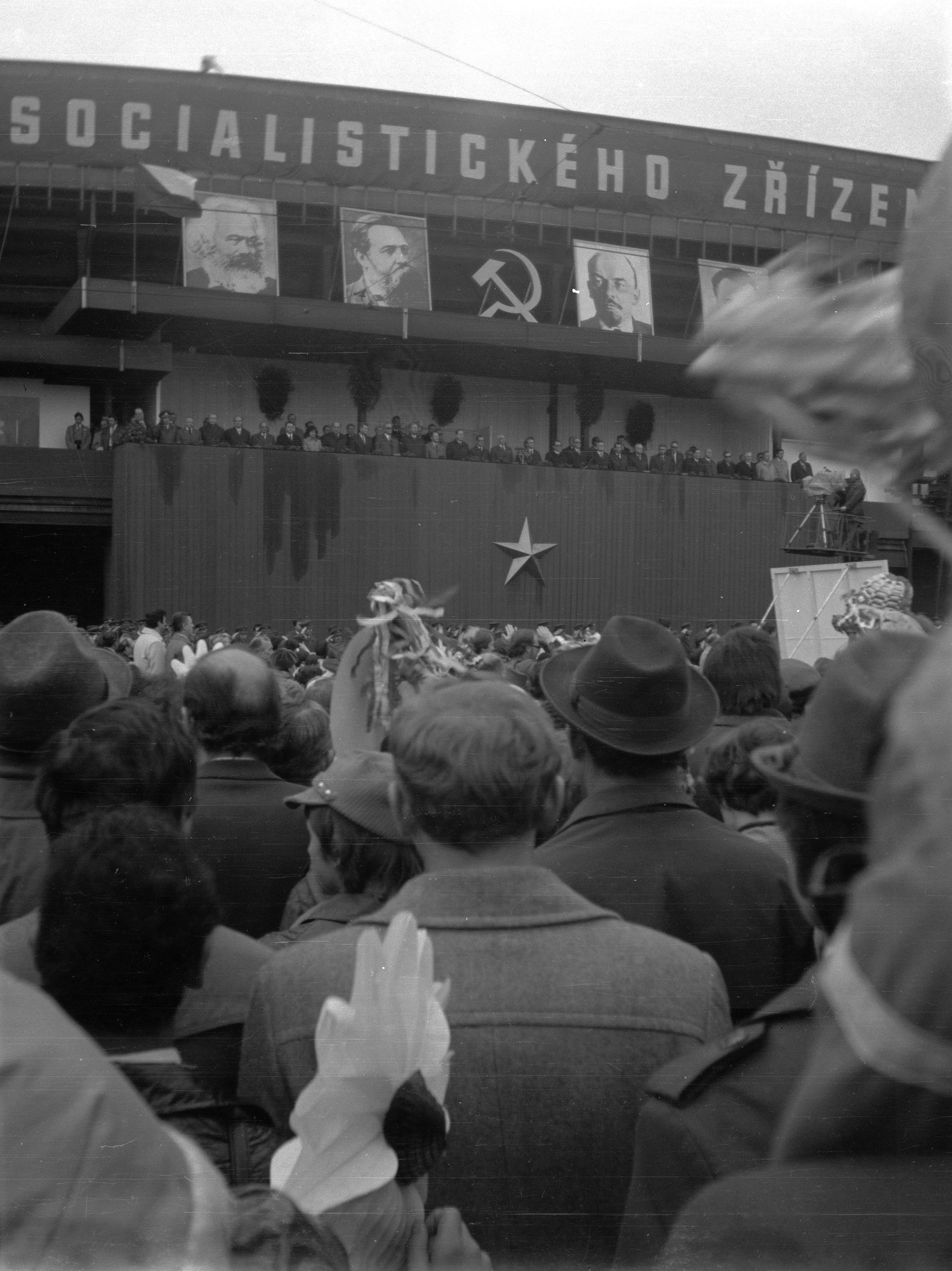 Prague-Holešovice. May Day on the Letná Plain.